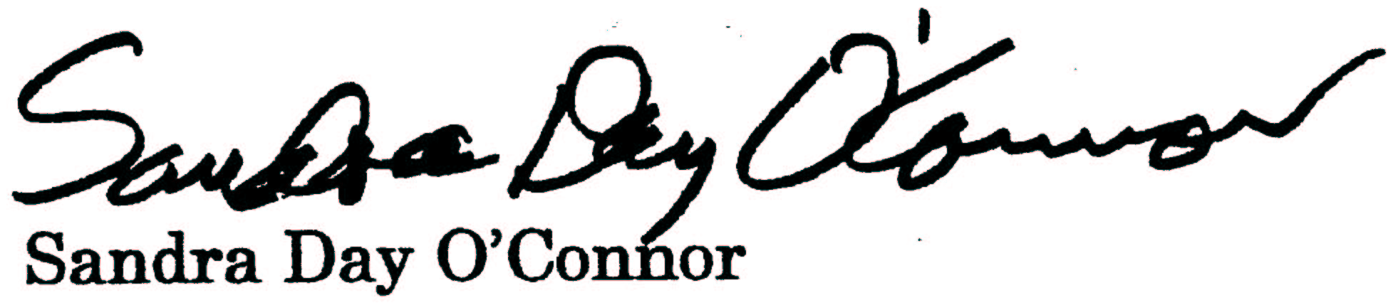 Signature of former Supreme Court Justice Sandra Day O'Connor on her resignation document.